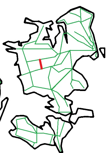 Map of railways on Zealand in Denmark with the state railway Sorø-Vedde-banen in red.